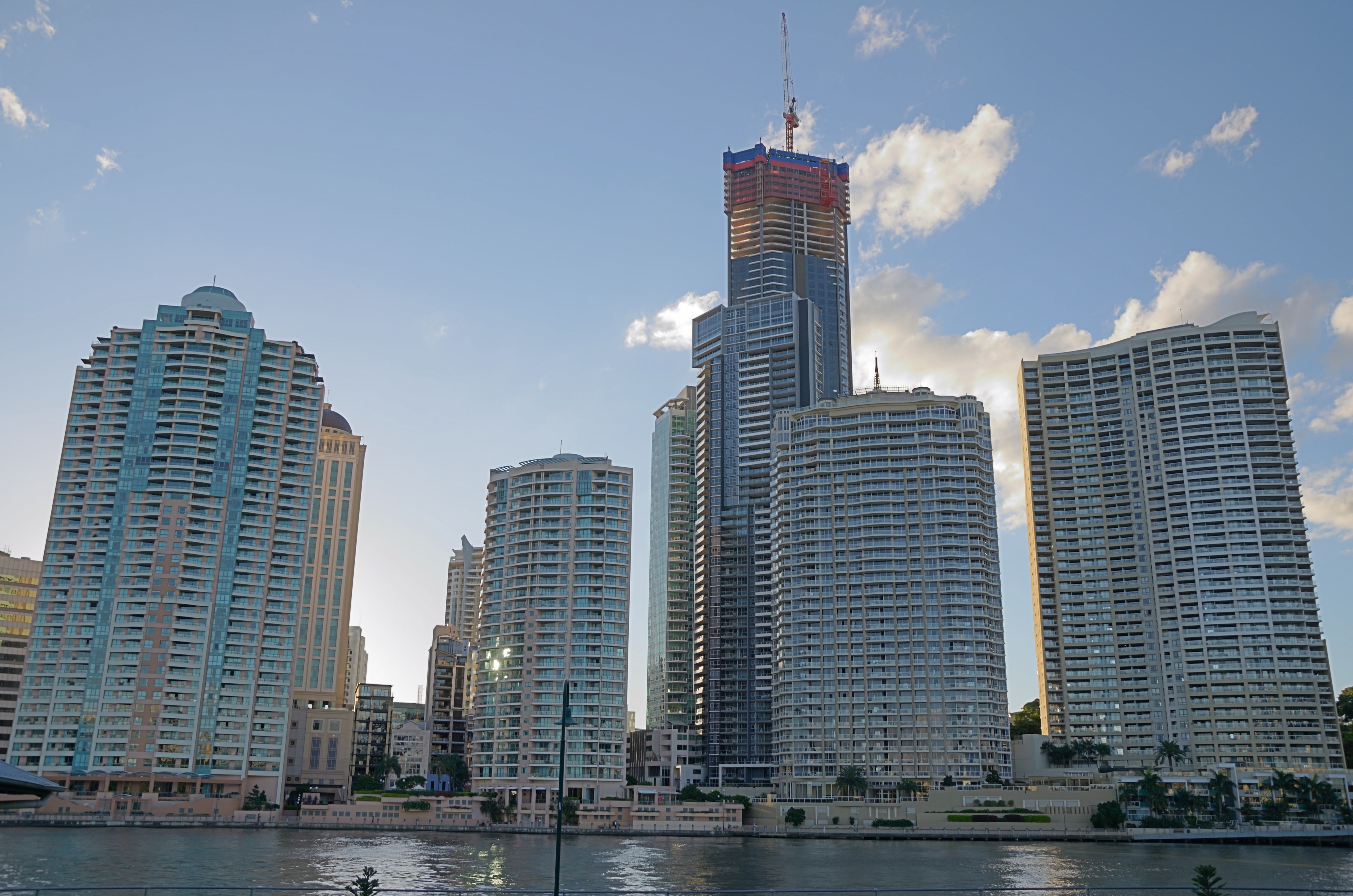 Residential buildings in the Brisbane CBD, taken from Kangaroo Point.